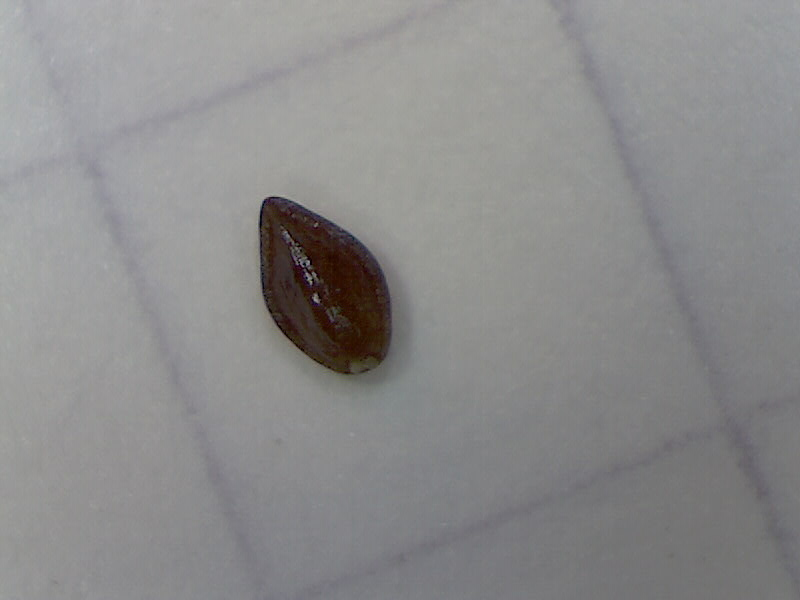 Myosotis sylvatica: mature fruit, side 1. Background lines are 5mm apart.